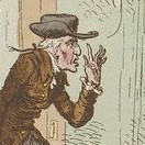 "The loss of the faro bank; or - the rook's pigeon'd," hand-coloured etching, by English caricaturist James Gillray, published by Hannah Humphrey. Pictured among others are George Hobart, 3rd Earl of Buckinghamshire. Image courtesy of the National Portrait Gallery, London.